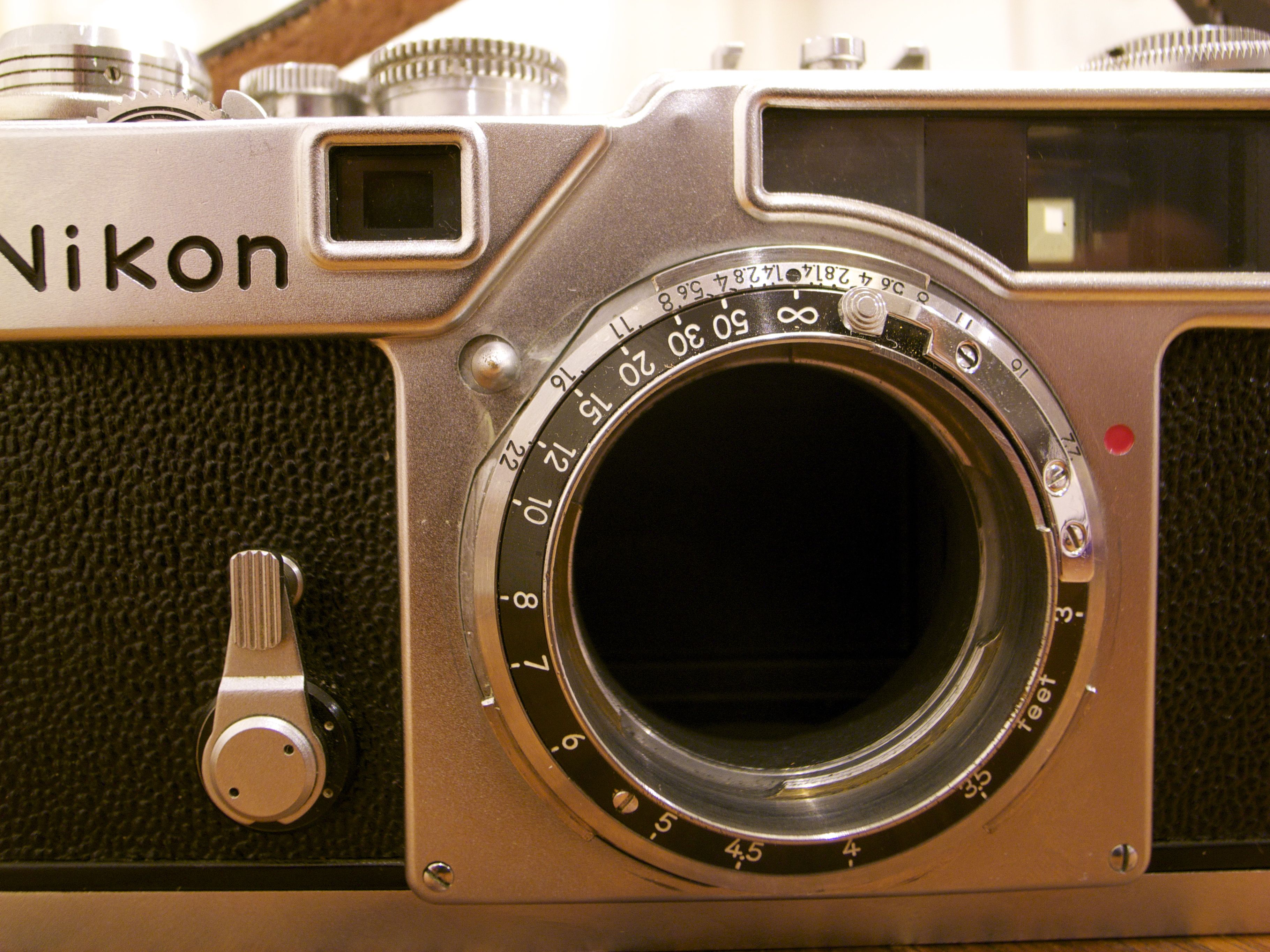 Photo showing the Nikon S-mount on the Nikon SP camera. This lens mount was used in the Nikon interchangeable-lens range finder cameras and was a copy of the pre-war Zeiss Ikon Contax lens mount.